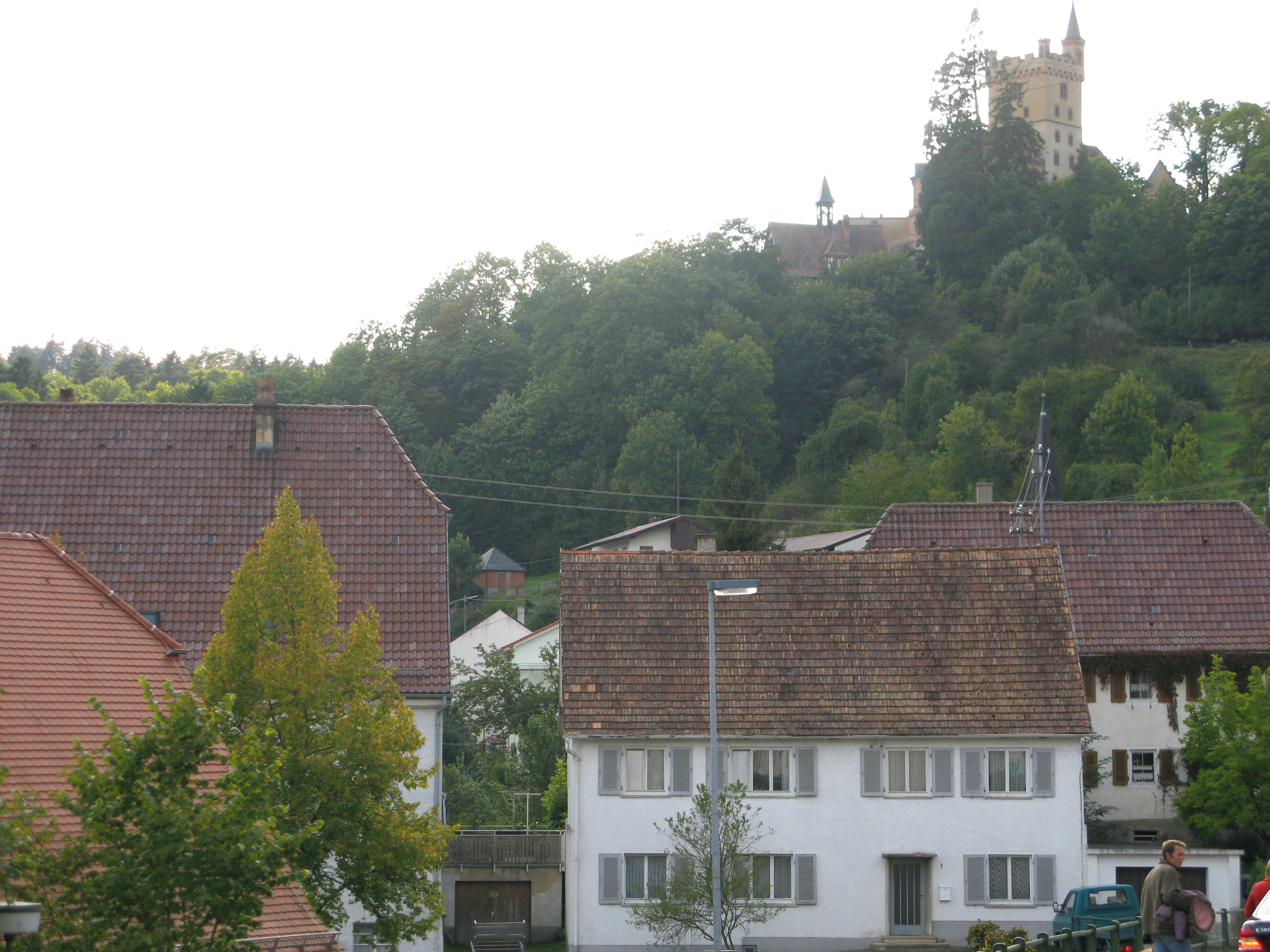 Palace Hohenmühringen above Mühringen (district of Horb am Neckar).